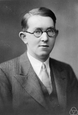 Harold Davenport, about 1931